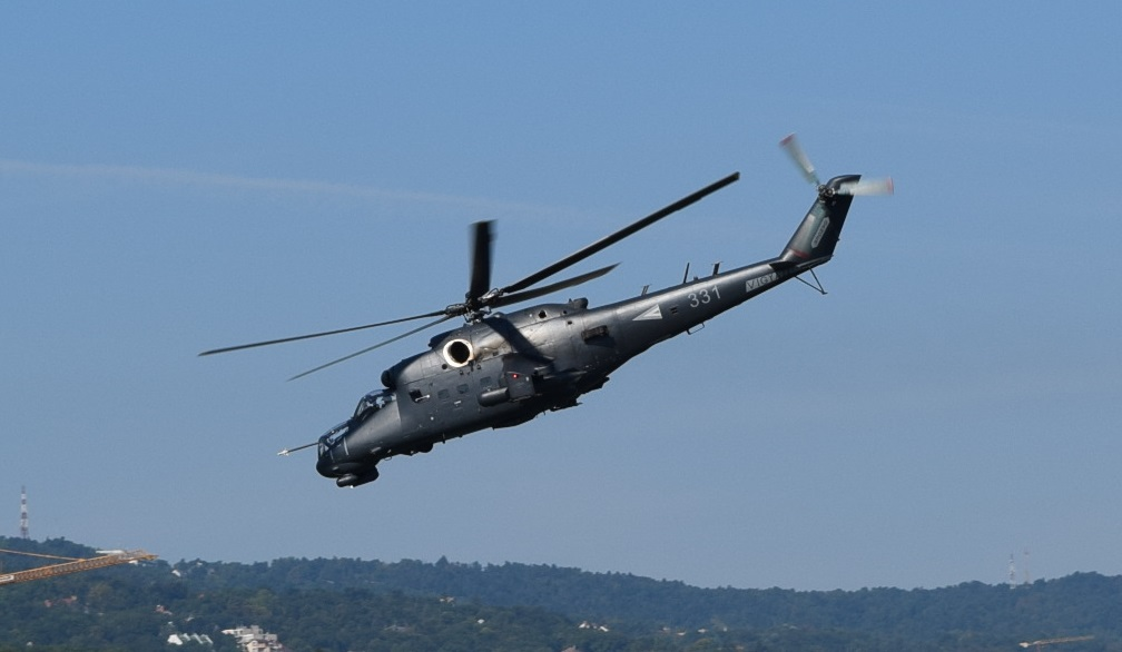 Hungarian Air Force Mi-24 P's flight over river Danube.